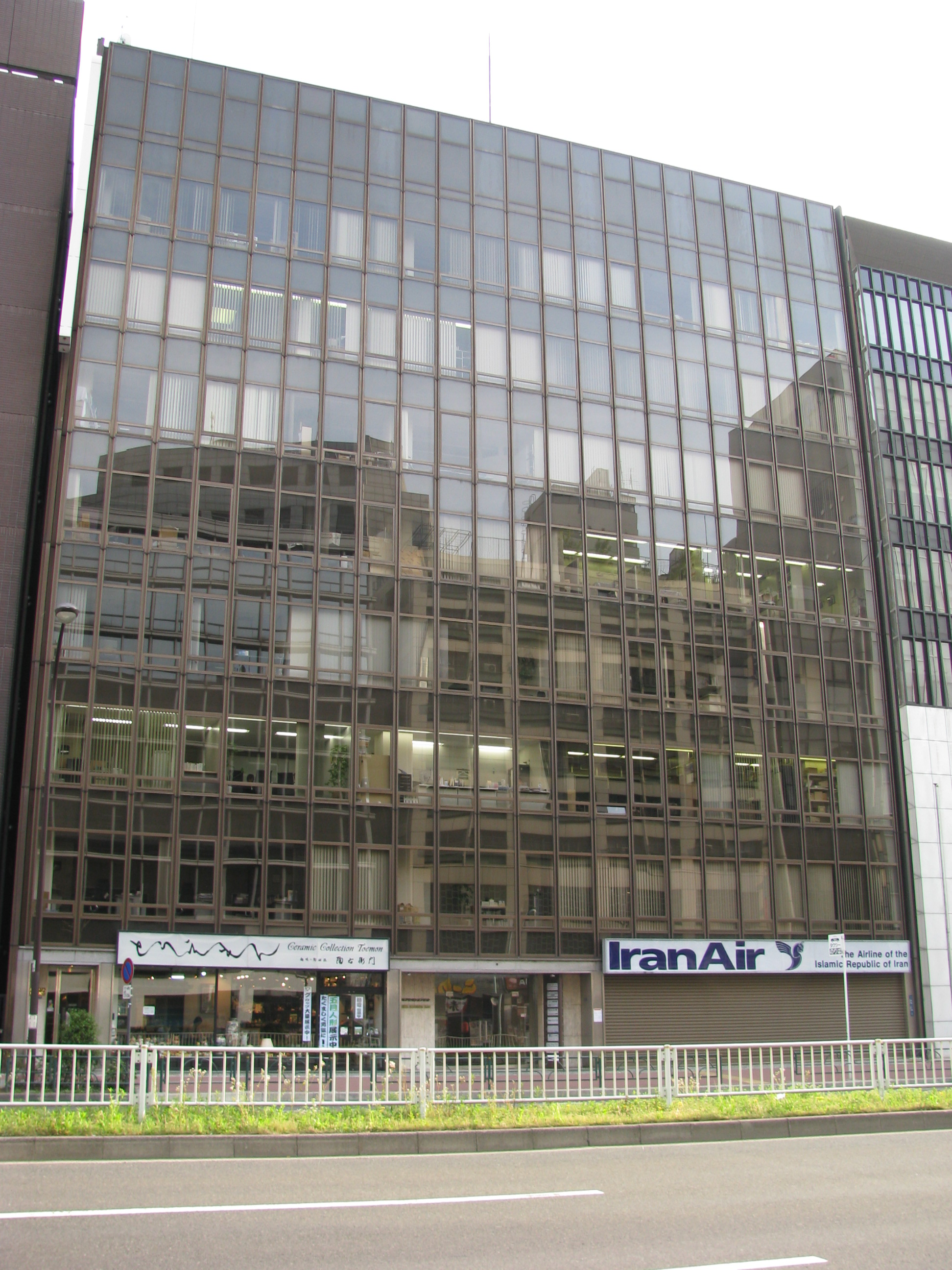 Akasaka Habitation Building. This place is Akasaka, Minato, Tokyo, Japan. It houses Iran Air's Japan offices.